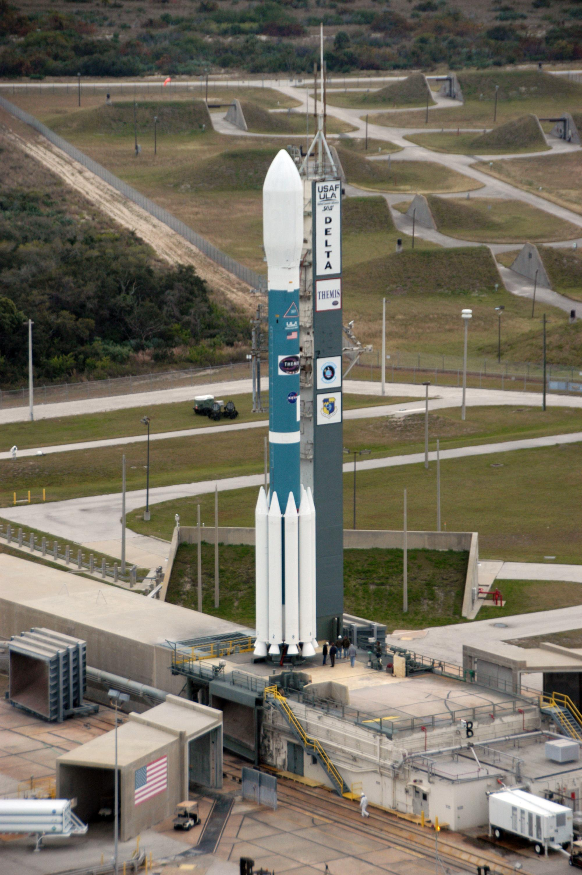 KENNEDY SPACE CENTER, FLA. -- In this close-up aerial view, the Delta II rocket with the THEMIS spacecraft atop sits ready for launch on Pad 17B at Cape Canaveral Air Force Station. THEMIS, an acronym for Time History of Events and Macroscale Interactions during Substorms, consists of five identical probes that will track violent, colorful eruptions near the North Pole. This will be the largest number of scientific satellites NASA has ever launched into orbit aboard a single rocket. The THEMIS mission aims to unravel the mystery behind auroral substorms, an avalanche of magnetic energy powered by the solar wind that intensifies the northern and southern lights. The mission will investigate what causes auroras in the Earth's atmosphere to dramatically change from slowly shimmering waves of light to wildly shifting streaks of bright color. Launch is scheduled for 6:05 p.m.